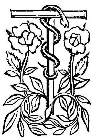 Tau shaped cross, with the corpse of a dead snake, surrounded by rose trees